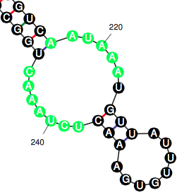 An image of the predicted 3' UTR structure. Highlighted bases show where the RNA-binding protein, KHDRBS3, can bind to the internal loop structure.